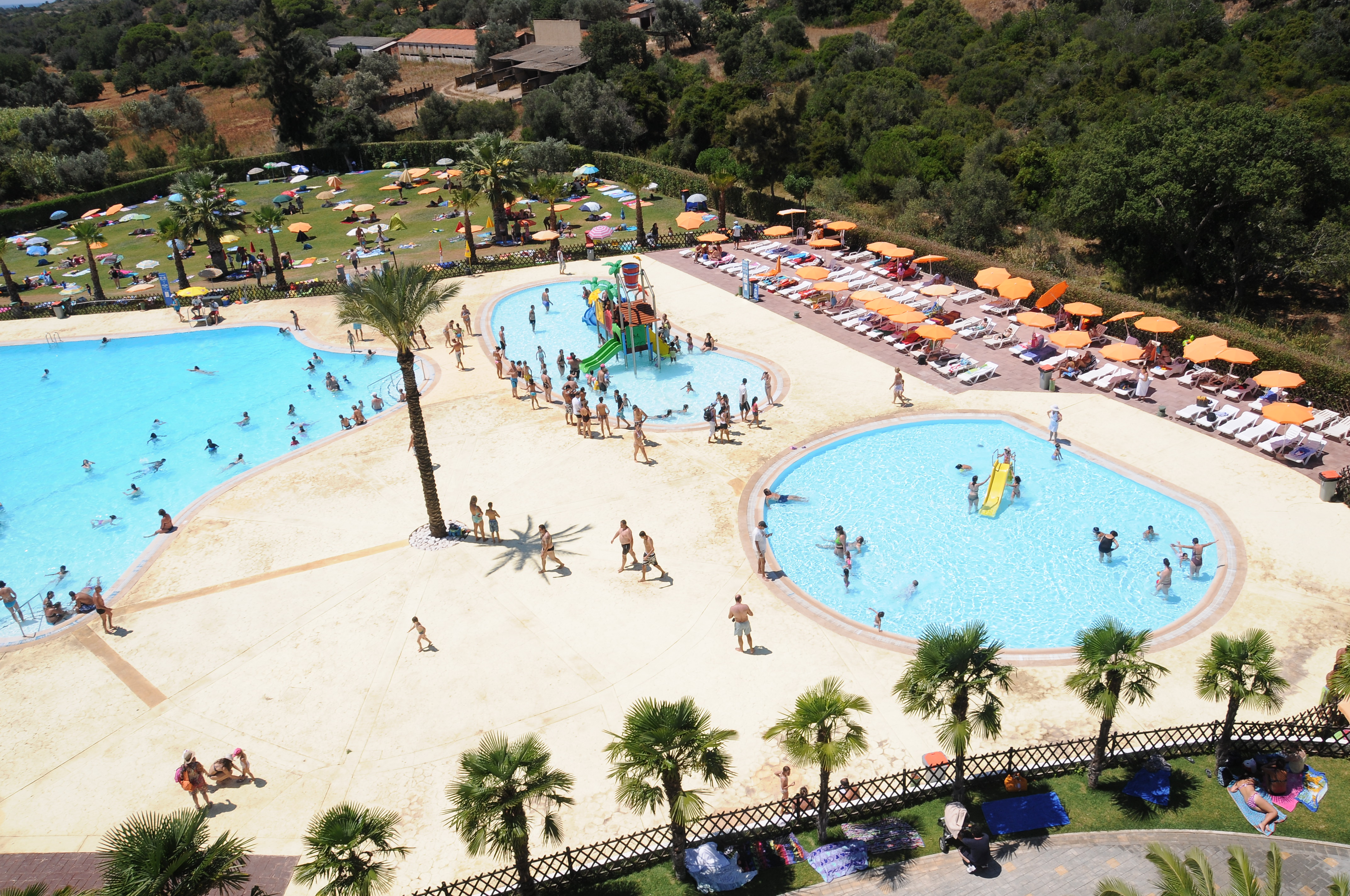 Pools in Zoomarine, Albufeira, Portugal.